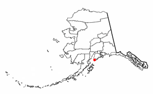 Adapted from Wikipedia's AK borough maps by Seth Ilys.